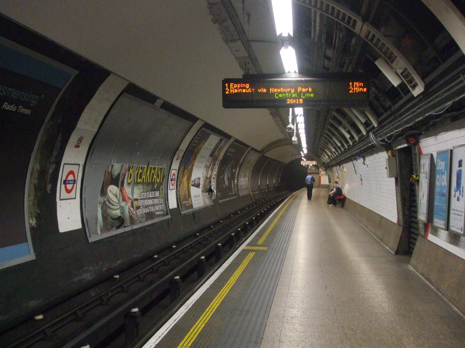 St. Paul's tube station eastbound platform undergoing refurbishment (July 2008), looking west.